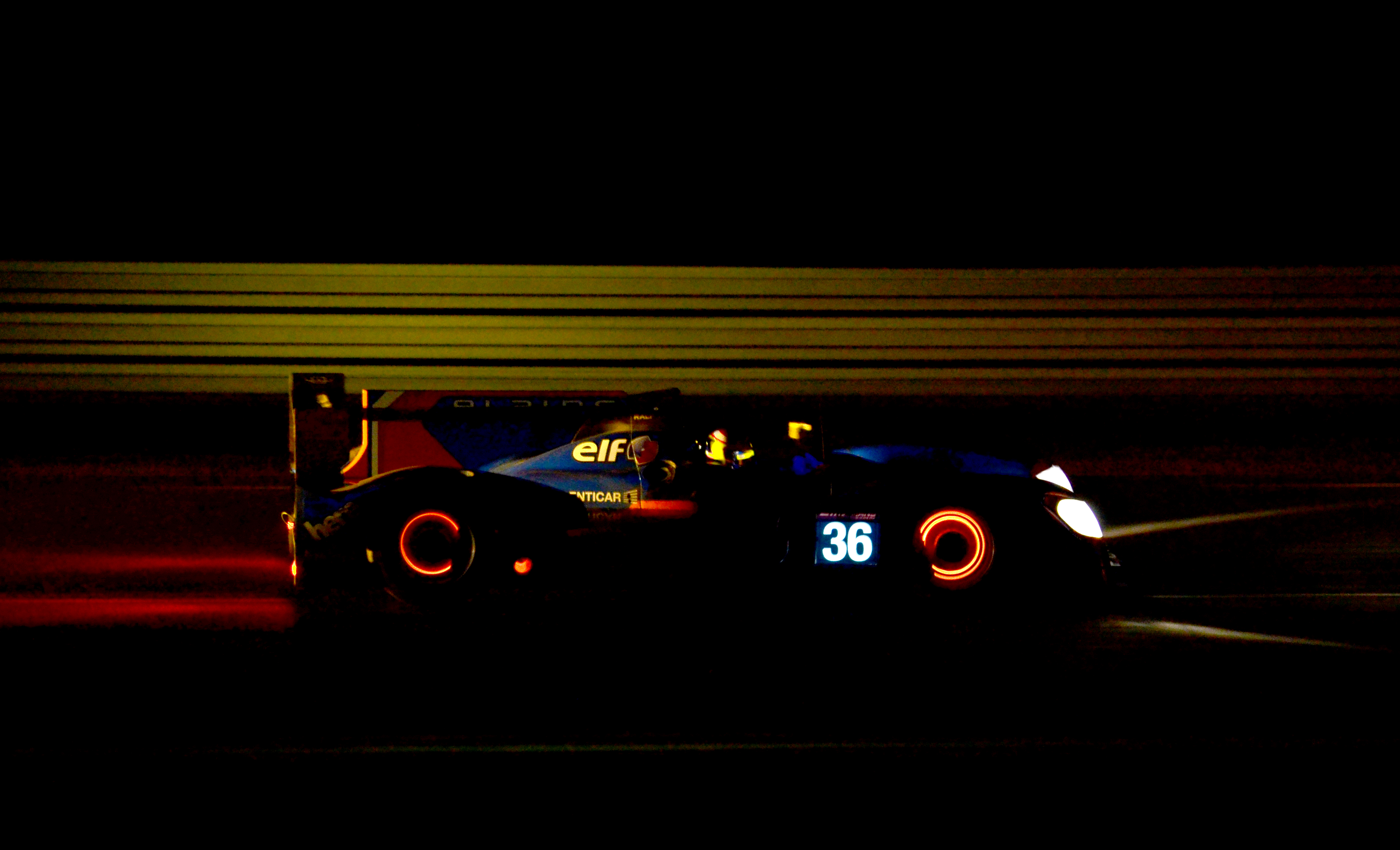 The No. 36 Signatech Alpine-Nissan driven by Nelson Panciatici at night during the 24 Hours of Le Mans